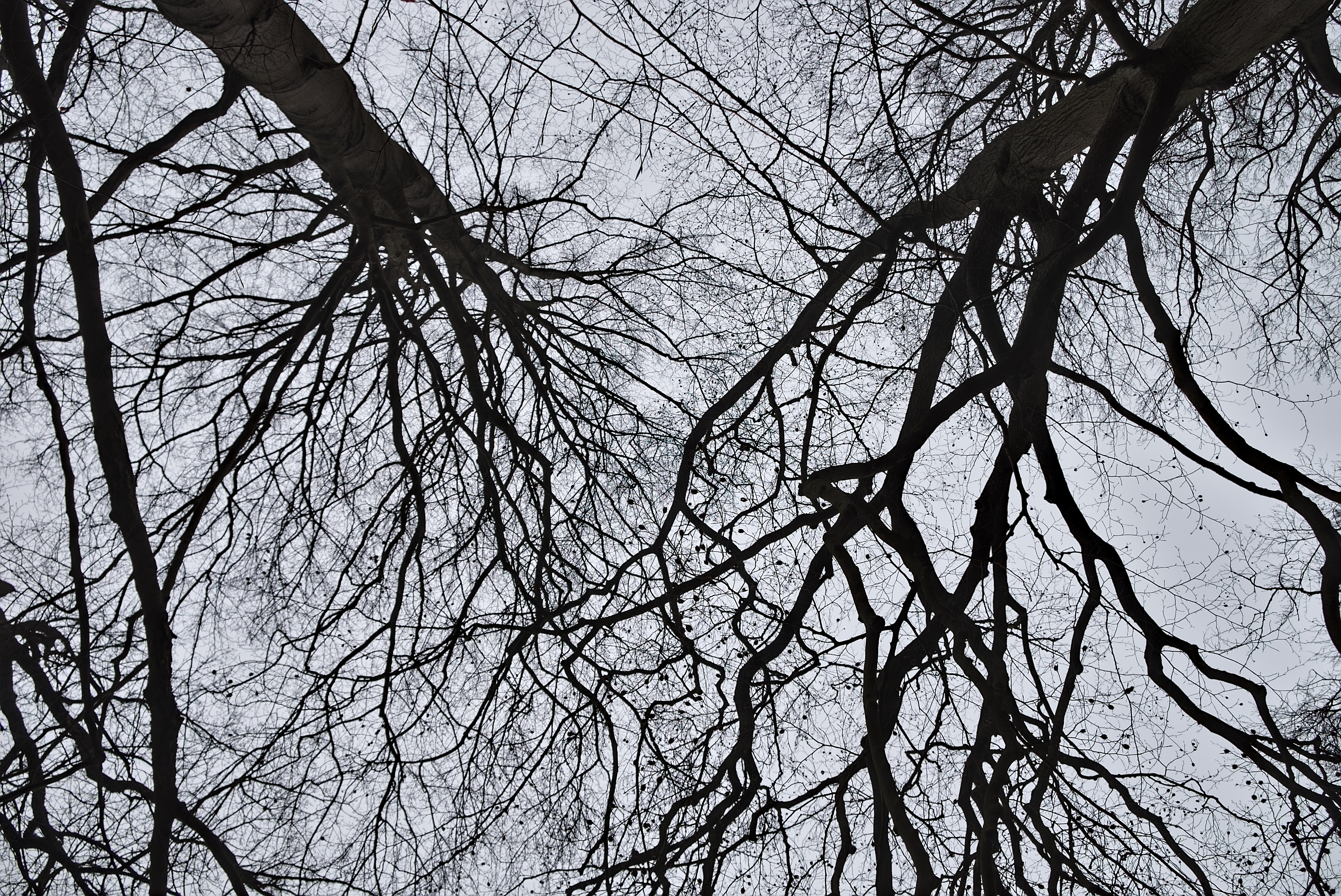 Leafless branches and cloudy sky North of Étangs Chabots in Auderghem, Belgium (DSCF2576)